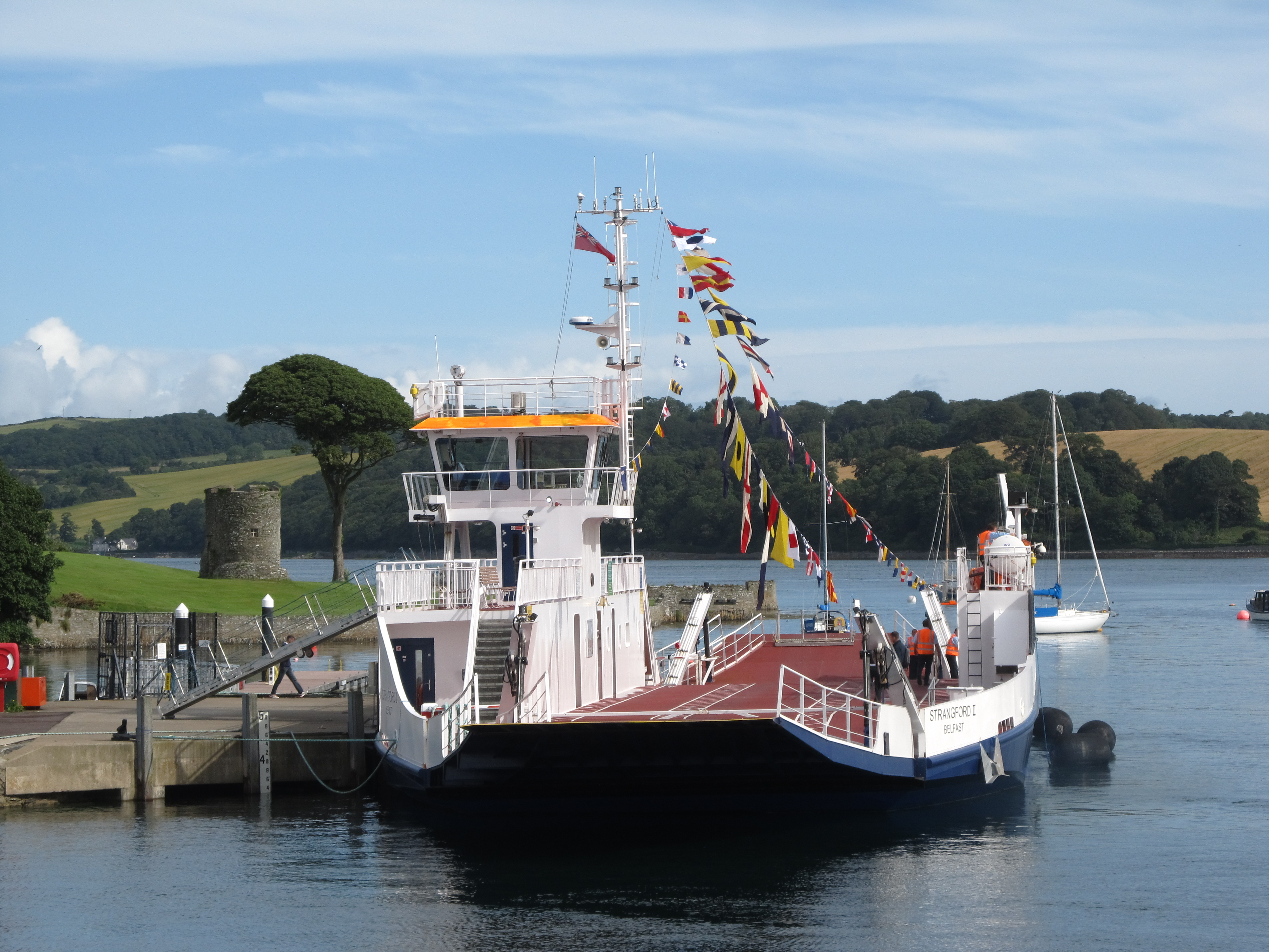 MV Strangford II dressed overall. Today, July 20, 2017, this new vessel - which has since February been working the Strangford to Portaferry route in rotation with the older vessel MV Portaferry II and has in that time made 7000 crossings of The Narrows - is to be officially named by HRH The Duke of Kent.